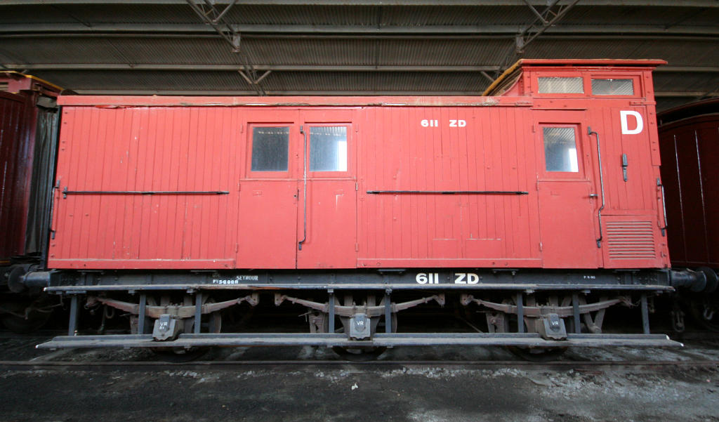 Victorian Railways Z van, coded ZD 611. In storage at the Seymour Railway Heritage Centre